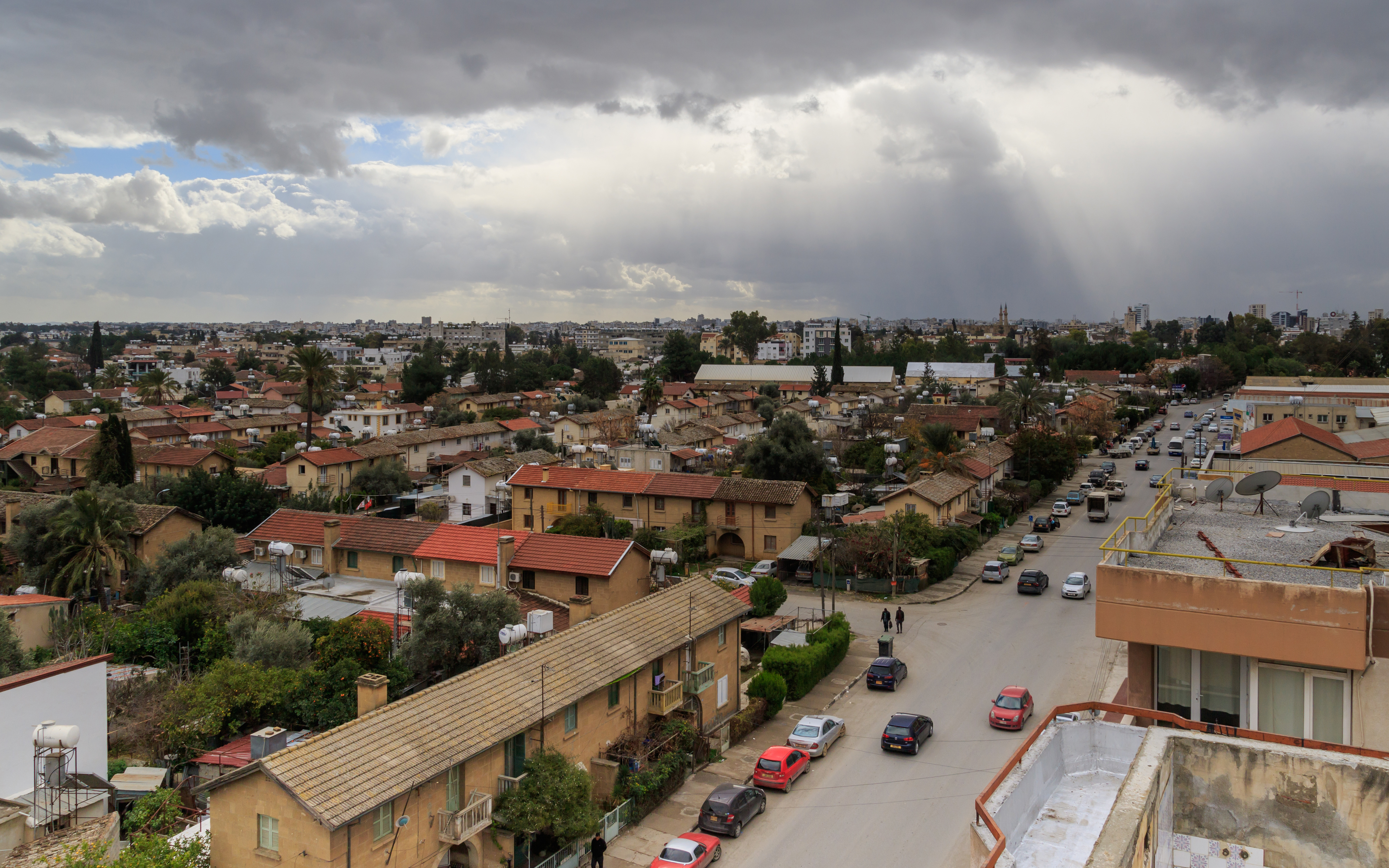 View from the roof of City Royal Hotel in Nicosia, Cyprus